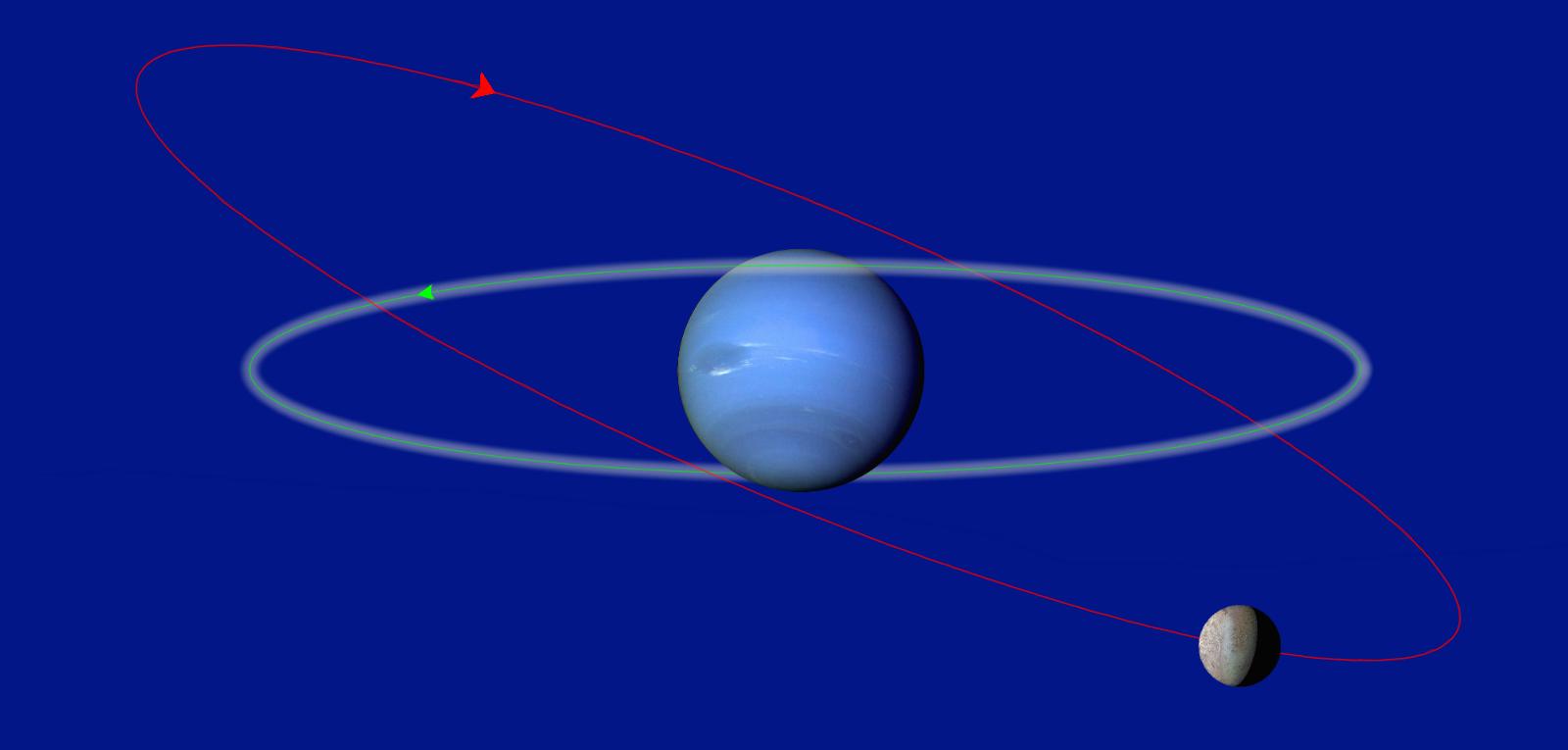 The orbit of Triton (red) has a 157° tilt in comparison to the orbit of most moons (green) 中文（中国大陆）: 海卫一的轨道和运行方向（红）与其他海王星的卫星轨道（绿）相比有157°的倾斜